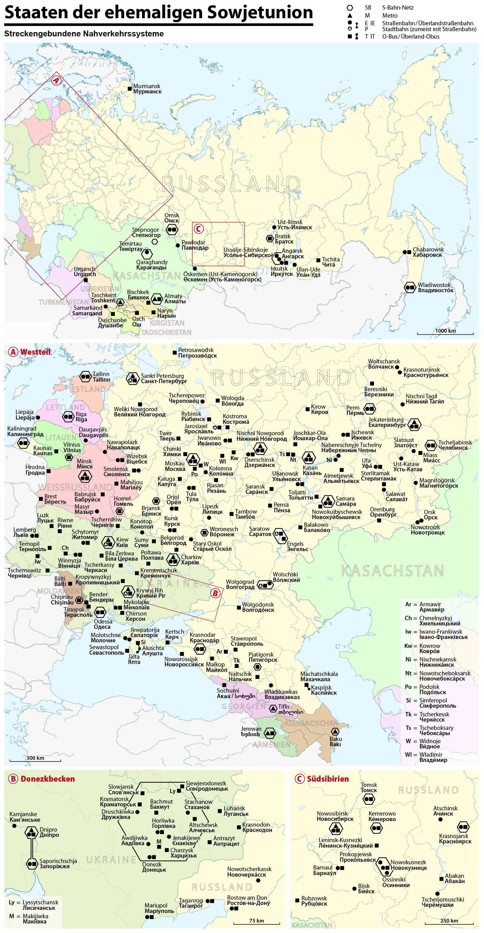 Map of fixed-route public transport systems (suburban railways, Rapid Transit and Light Rail Transit systems, tram, trolleybus) in the states of the former Soviet Union